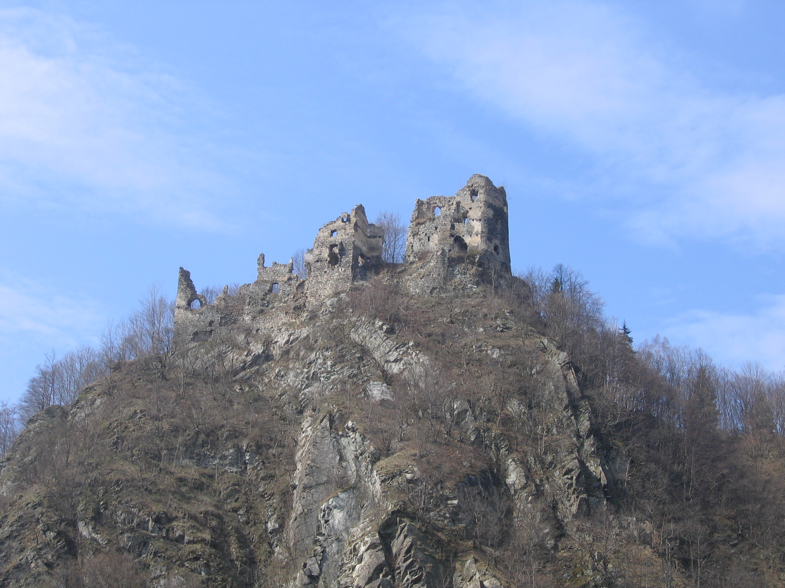 sk: Starhrad, ruins of castle in Slovakia between cities Žilina and Martin author: Juloml, april 2006